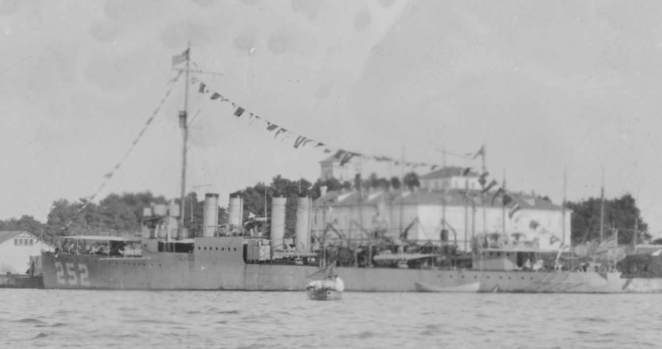 USS McCook (Destroyer # 252) Dressed with flags in a European port, circa 1919. Photographed by R.E. Wayne (# J-50). U.S. Naval History and Heritage Command Photograph.